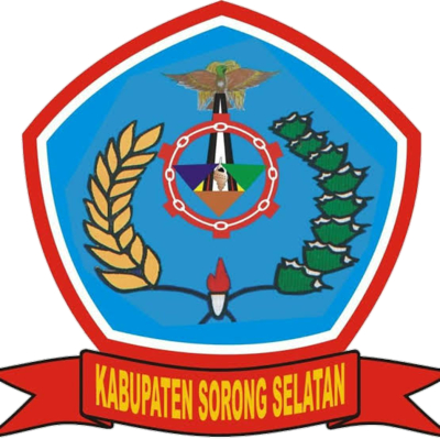 Coat of arms of South Sorong Regency